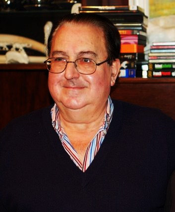 Journalist and writer Manuel Roman.